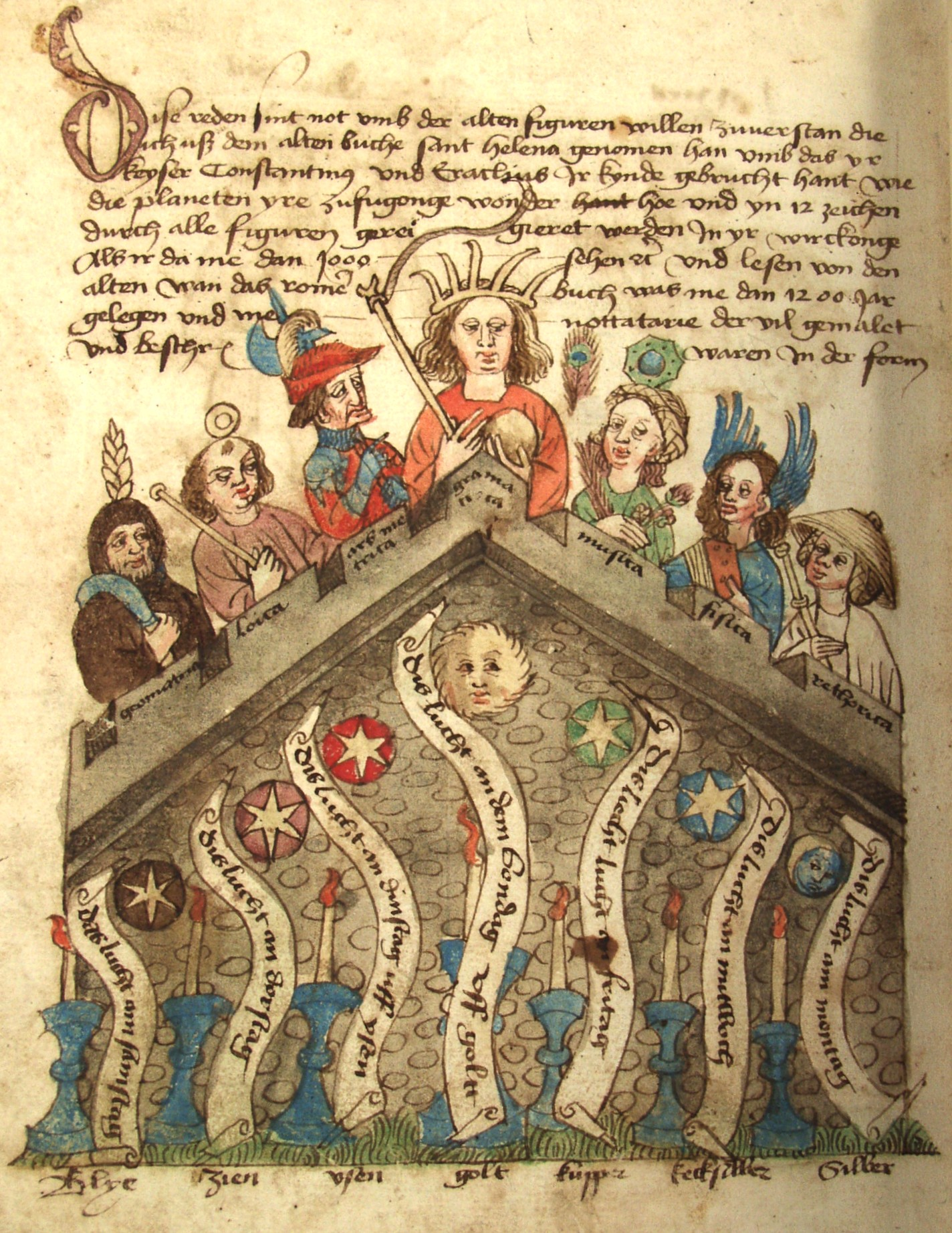 Seven planets and associated liberal arts. Tübingen Miscellany (Tübinger Hausbuch). University library, Tübingen. The seven arts from left to right: Geometry, Logic, Arithmetic, Grammar (linked to Jupiter in the center), Music (linked to Venus), Physics (instead of Astronomy), Rhetoric. University library, Tübingen.